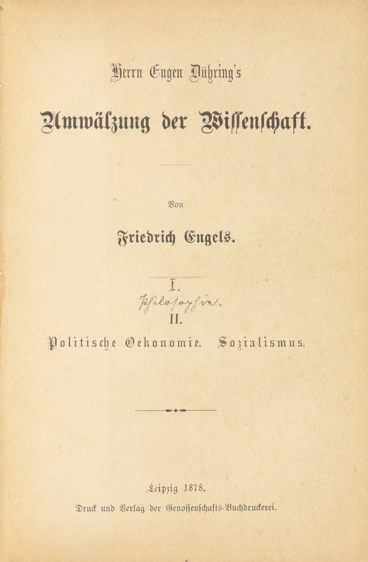 Book cover of the 1894 edition of Herrn Eugen Dührings Umwälzung der Wissenschaft also known as Anti-Dühring by Fredrich Engels.